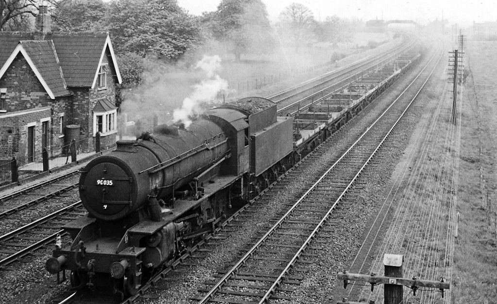 Westbound train of flat wagons approaching Barnetby. View eastward, from Knabs Bridge, Barnetby, with New Barnetby crossing and footbridge in the distance, on the ex-Great Central main line from Immingham and Grimsby to Doncaster, Sheffield, Lincoln etc. The train, hauled by ex-War Department 2-8-0 No. 90035, is probably returning empty to Scunthorpe after delivering steel slabs to Immingham Dock.